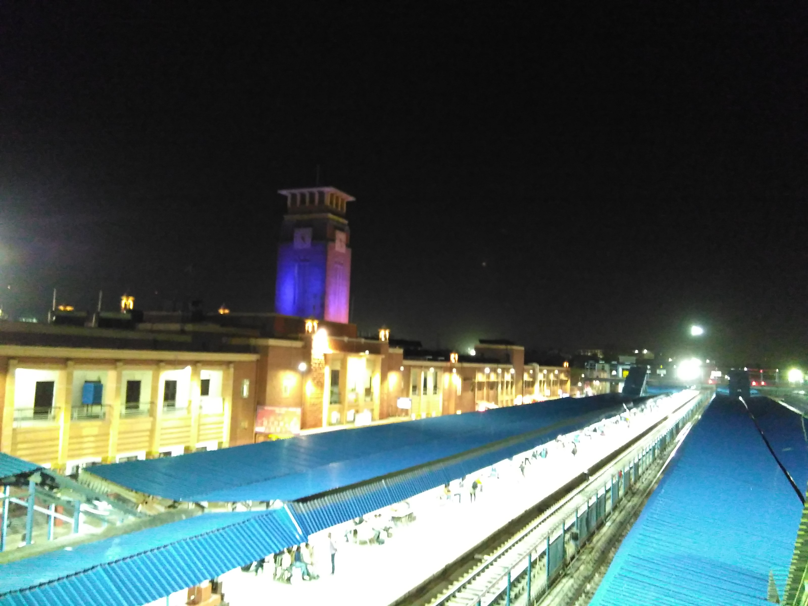 Railway Station Jodhpur at Night